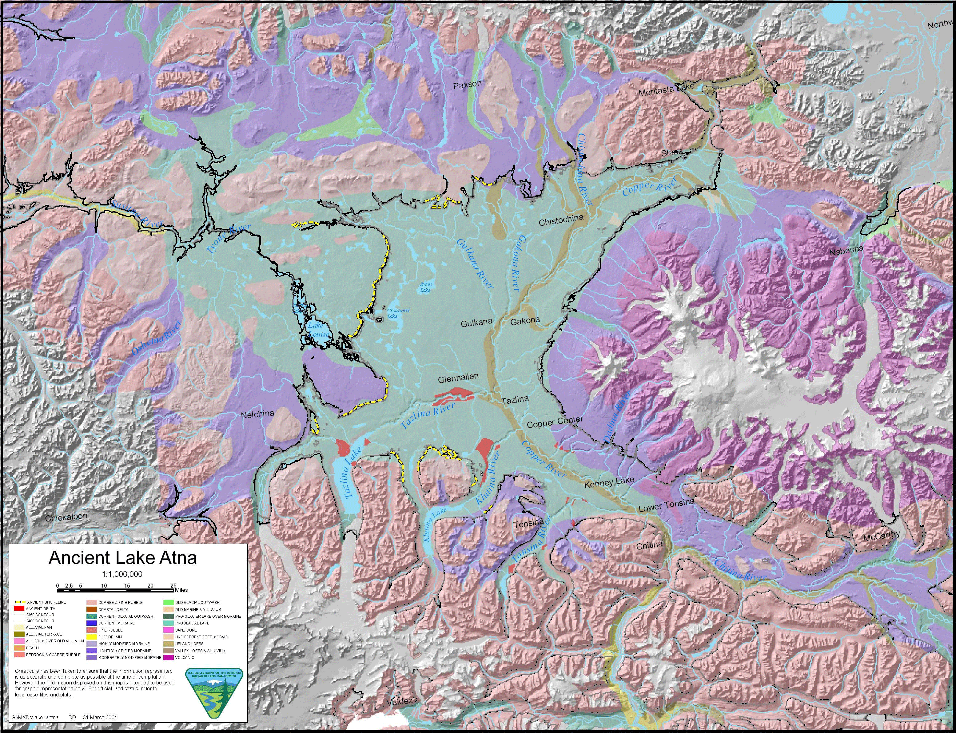 Map of Ancient Lake Atna and surrounding area.